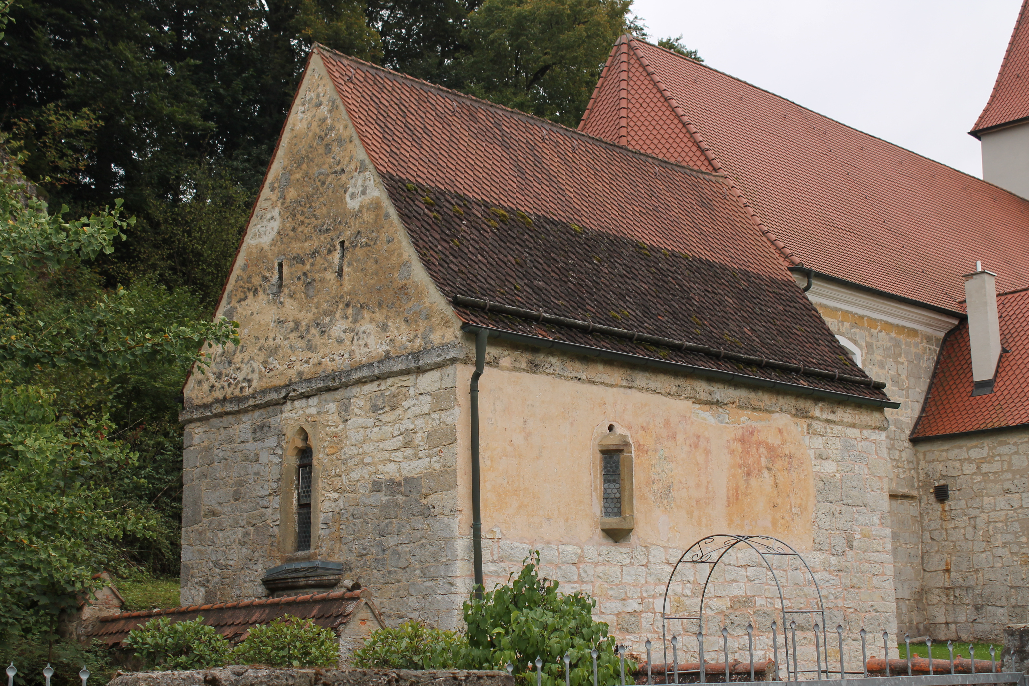 This is a photograph of an architectural monument.